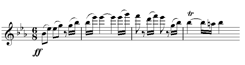 Le motif du troisième mouvement du Concerto pour piano nº 5 (dit « L'Empereur ») de Ludwig van Beethoven The motif of the third movement from Ludwig van Beethoven's Piano Concerto No. 5 (The Emperor)